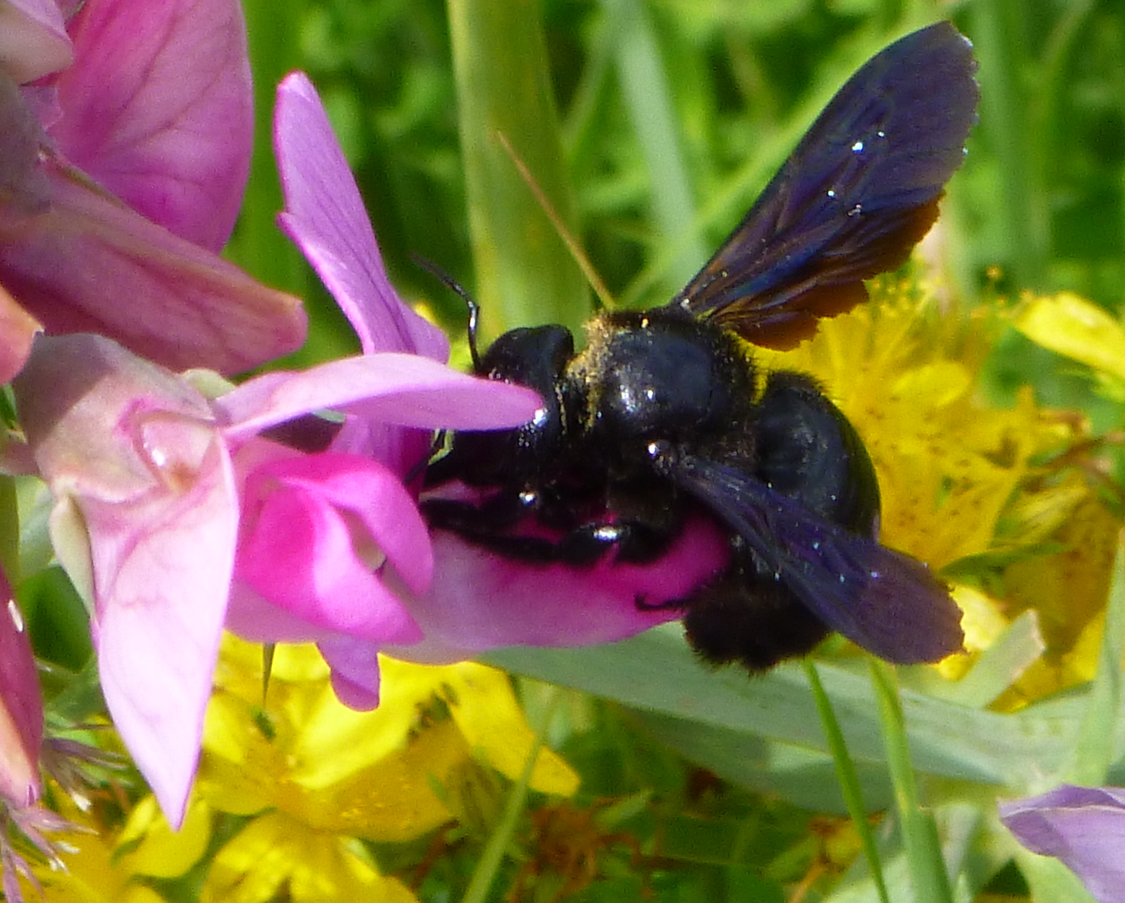 Xylocopa violacea (Carpenter bee) in Brandenburg, Germany